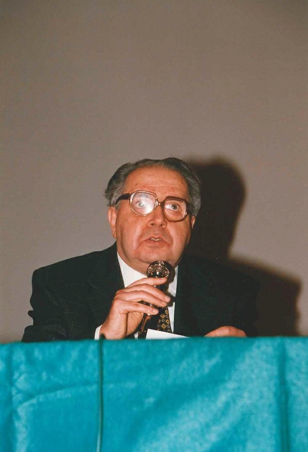 Edoardo Guglielmi